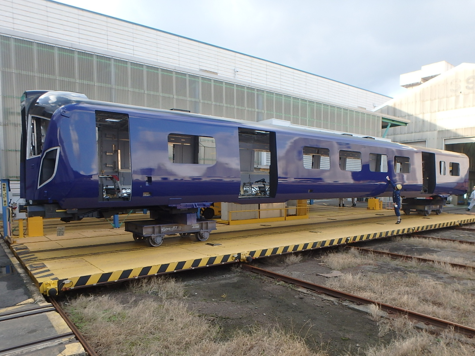 The bodyshell of a Hitachi AT200 EMU destined for Abellio in the UK at the Hitachi factory in Kudamatsu, Yamaguchi Prefecture, Japan